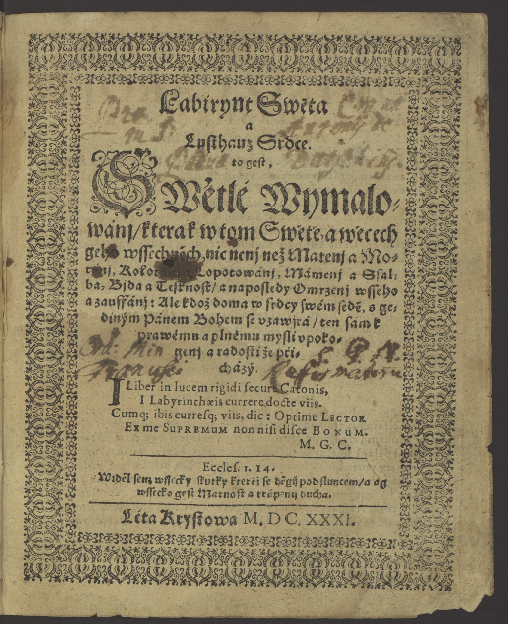 Title page of the book "Labyrinth of the World and Paradise of the Heart" by John Amos Comenius from the year 1631